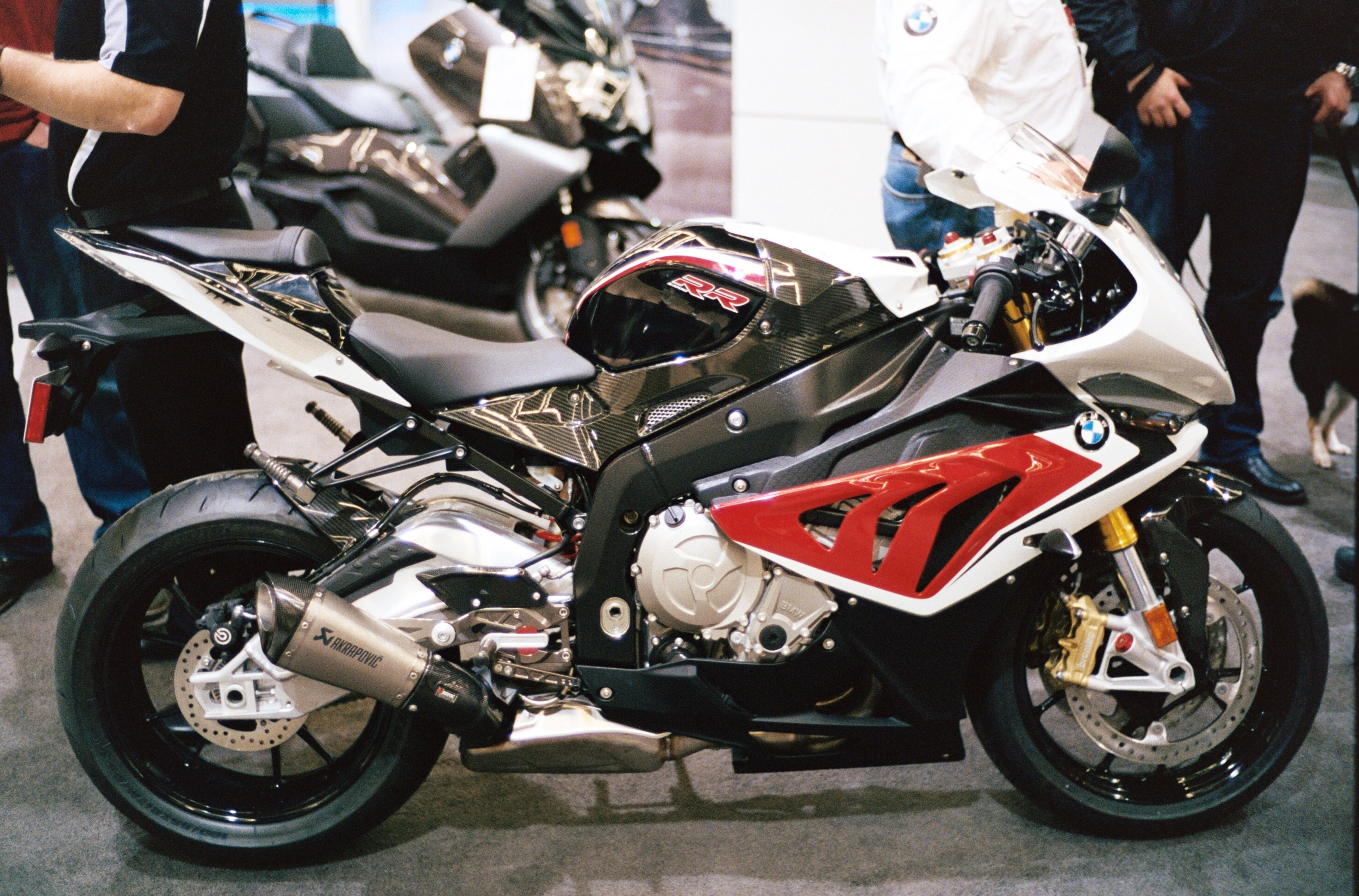 2014 Seattle International Motorcycle Show